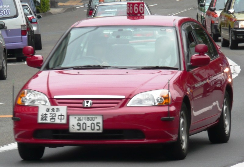 Honda Civic.